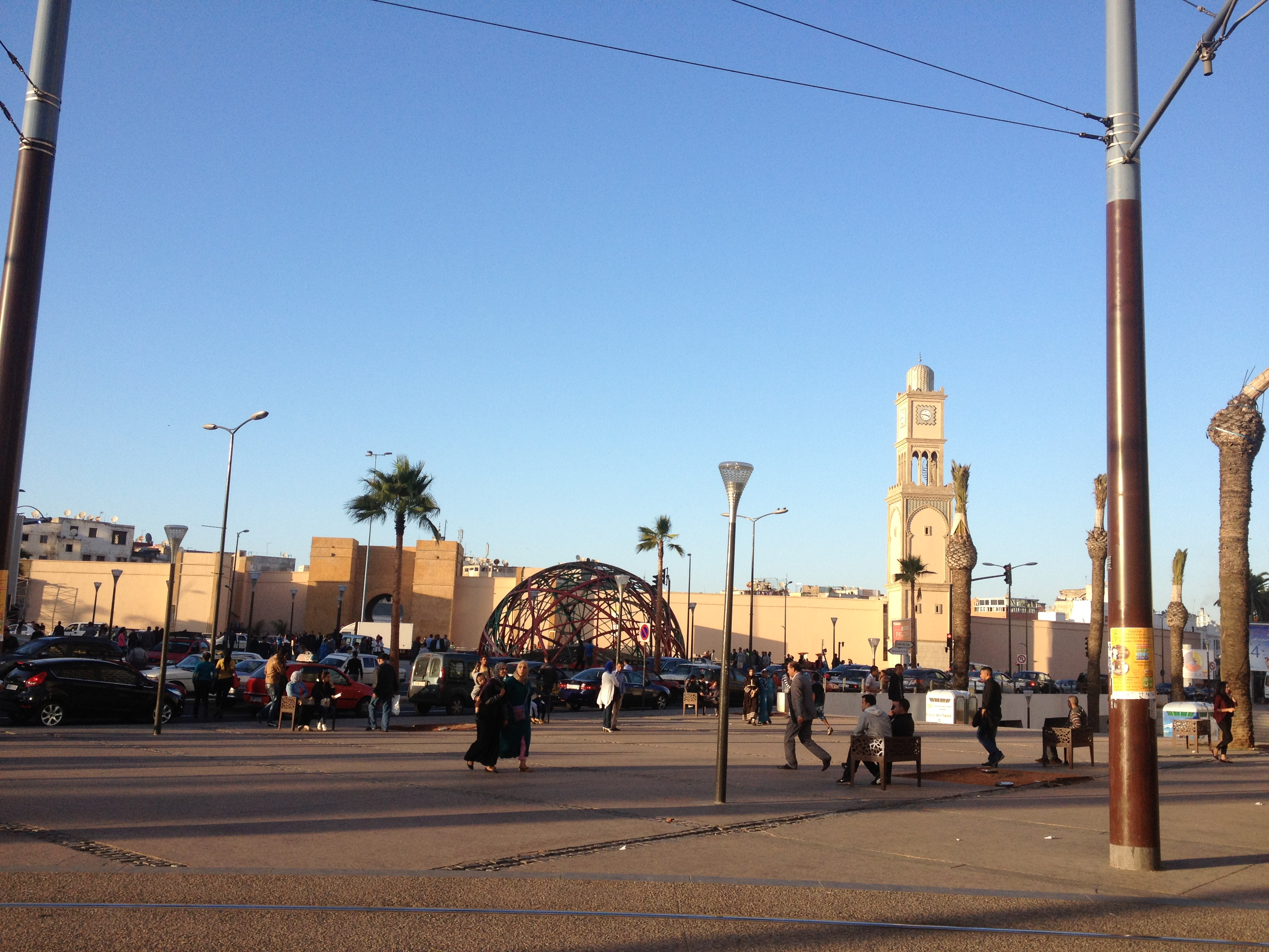 A view from United Nations square to Old Medina, Casablanca.